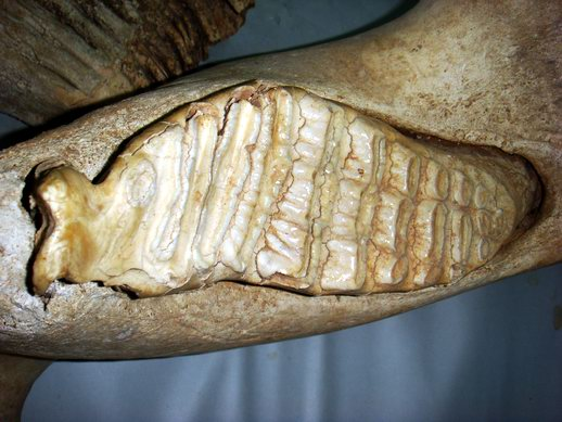 Elephant teeth